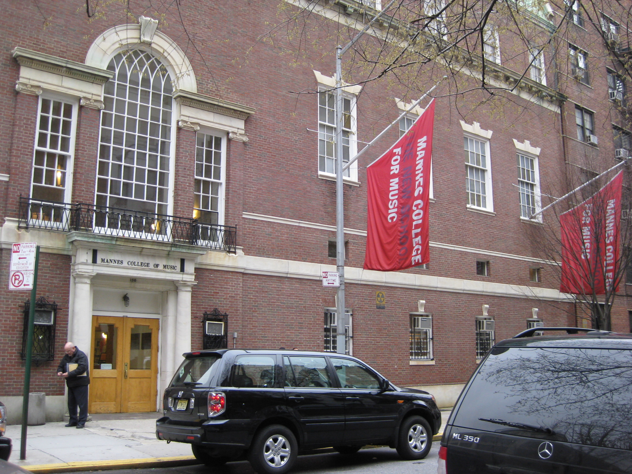 This photo is of Wikipedia Takes Manhattan location code 19, Mannes College The New School for Music.